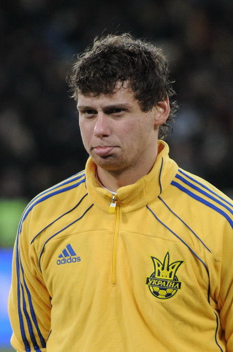 Ukrainian football player Oleksand Rybka before match against Germany